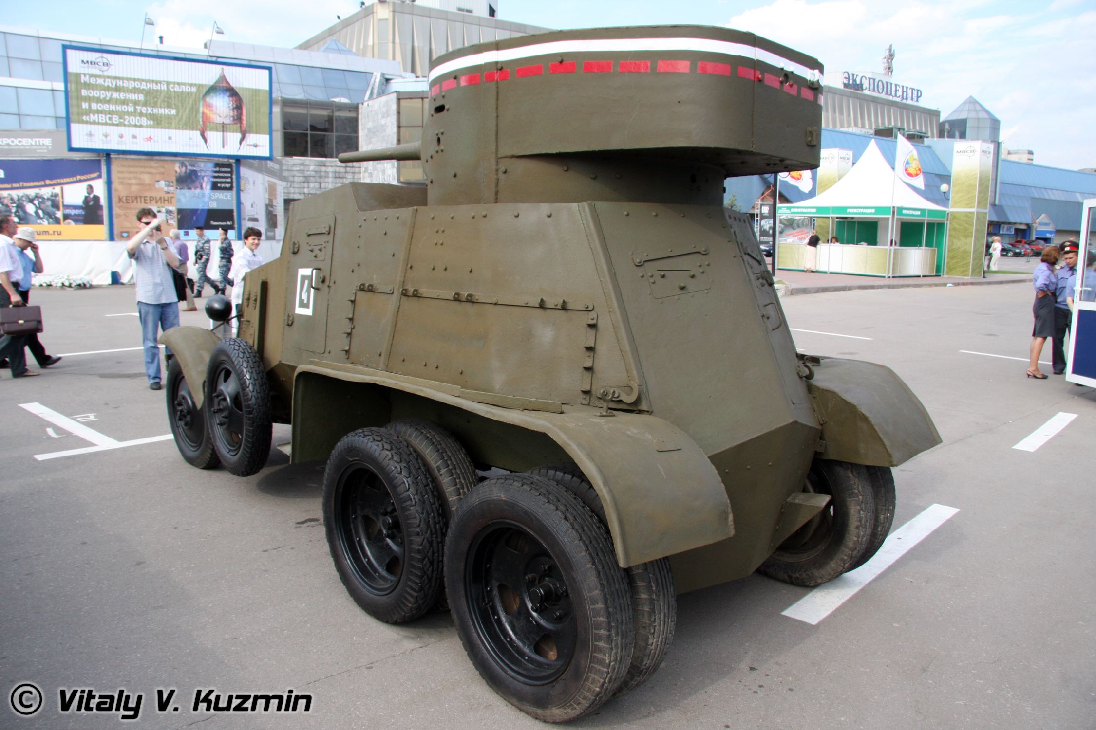 BA-6 armored vehicle - IDELF-2008